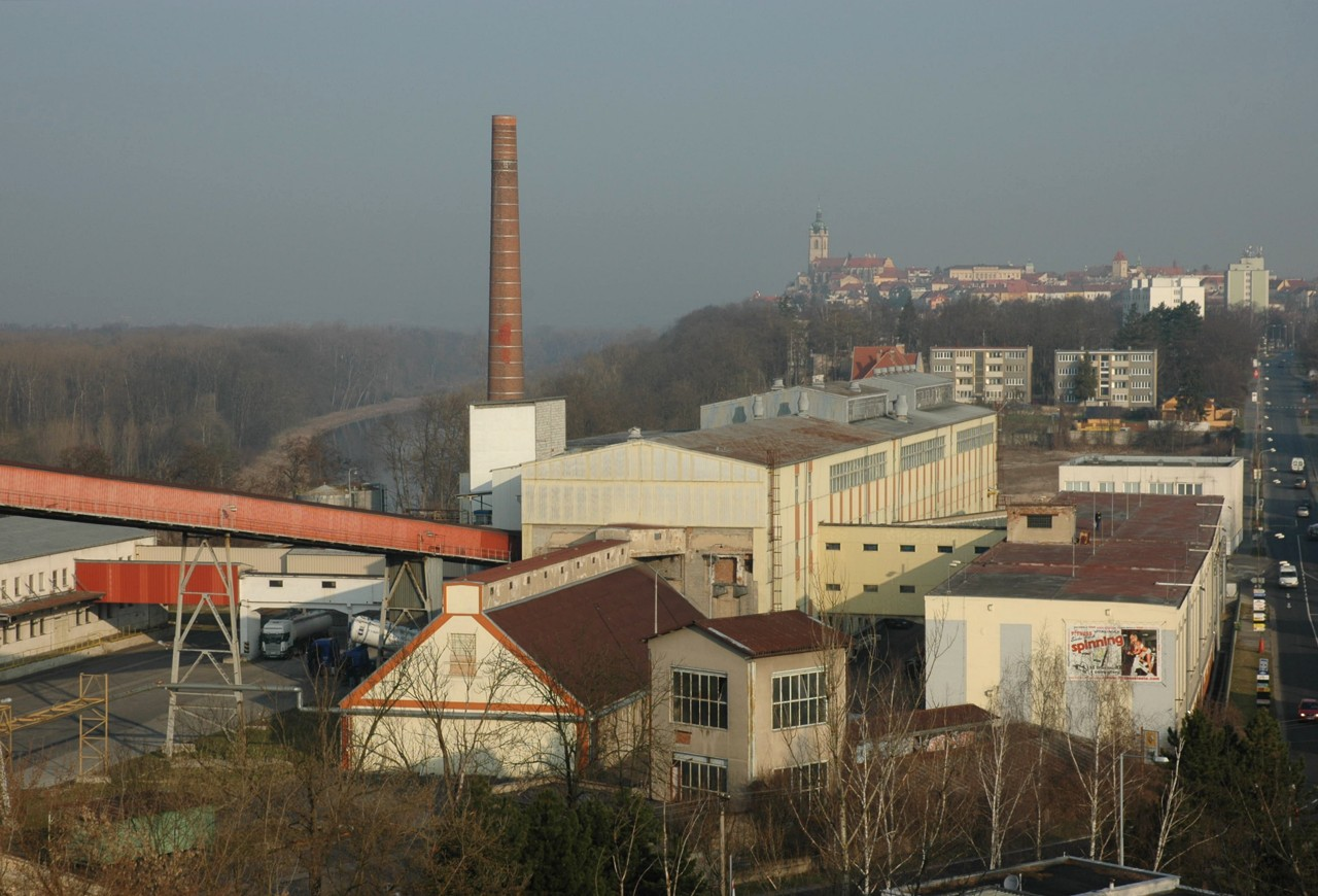 Mělník sugar factory, Czech Republic